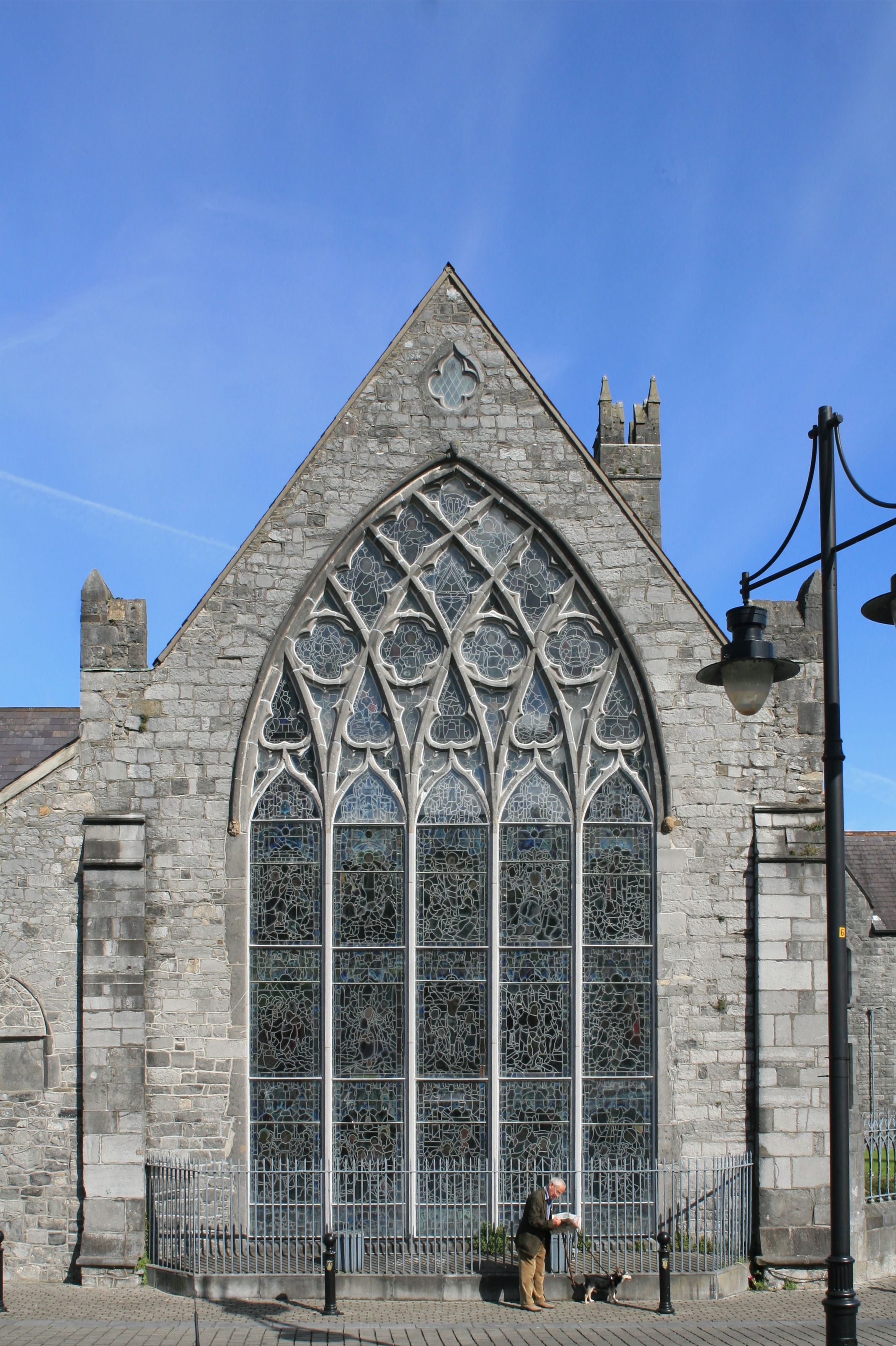 Kilkenny, County Kilkenny, Ireland 14th-century south window, also named Rosary window, of Black Abbey. See also the corresponding view from inside.